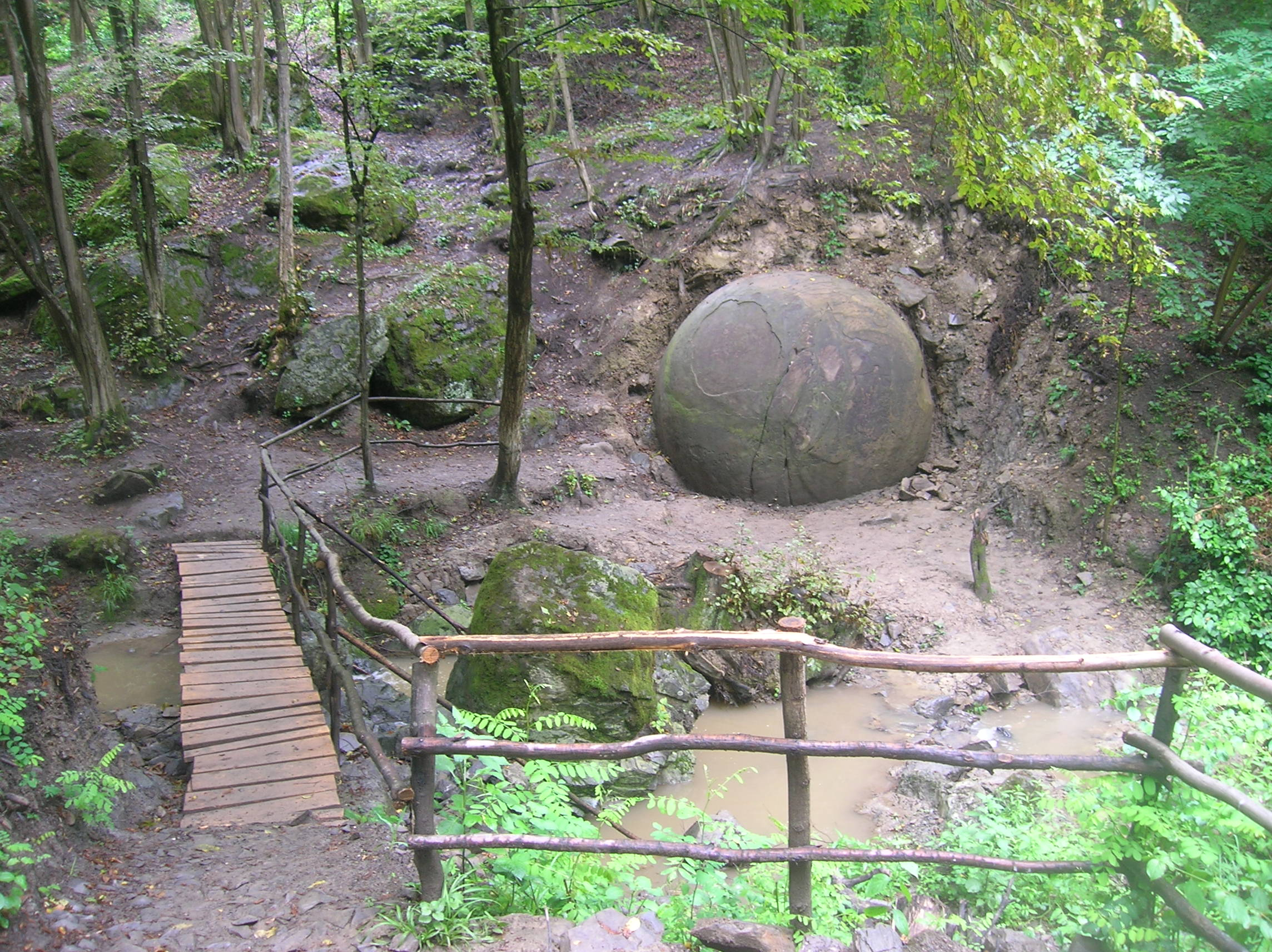 Stone sphere in Bosnia (Zavidovići)